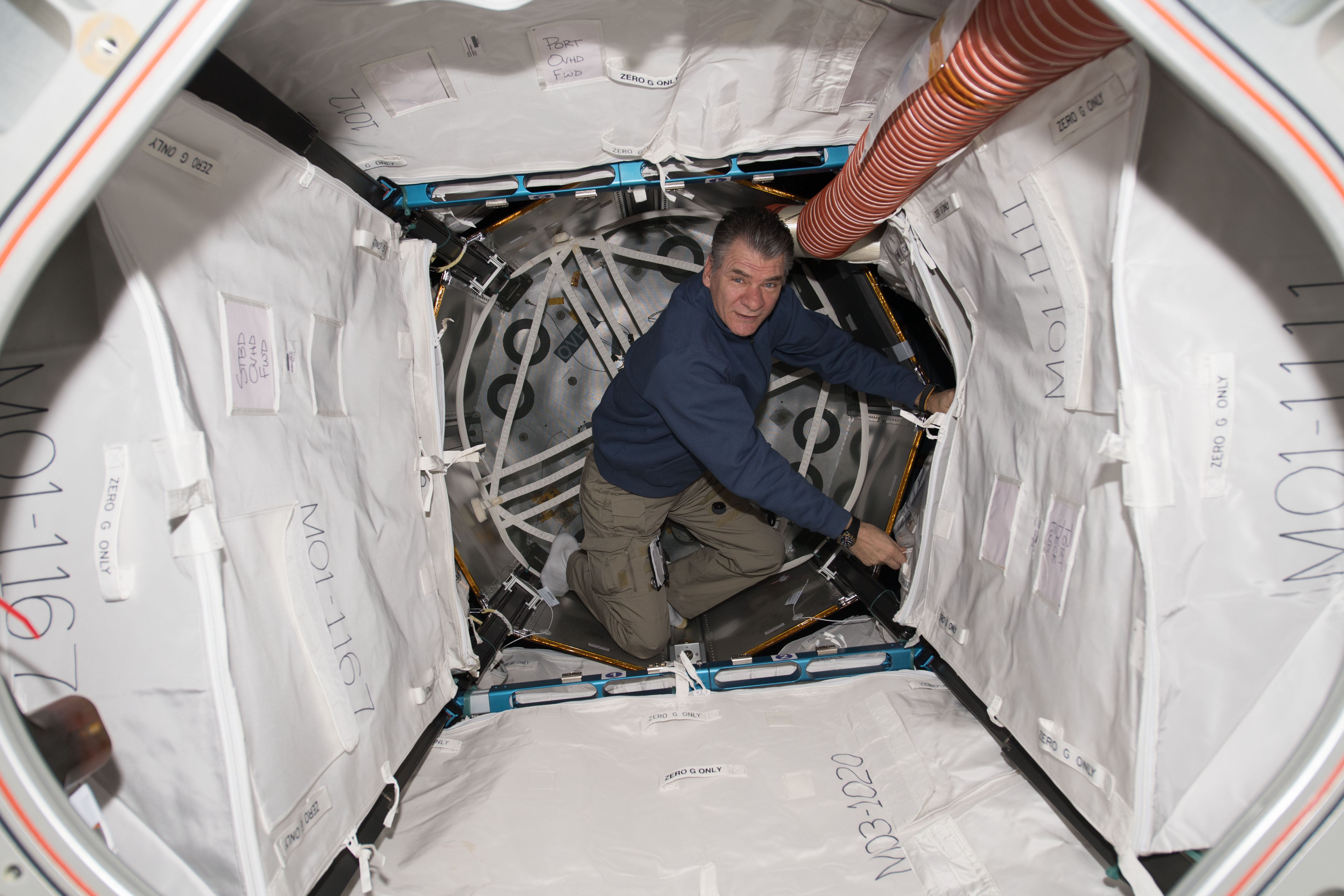 ESA (European Space Agency) astronaut Paolo Nespoli works inside the Bigelow Expandable Activity Module, or BEAM, outfitting it for future cargo storage aboard the International Space Station.